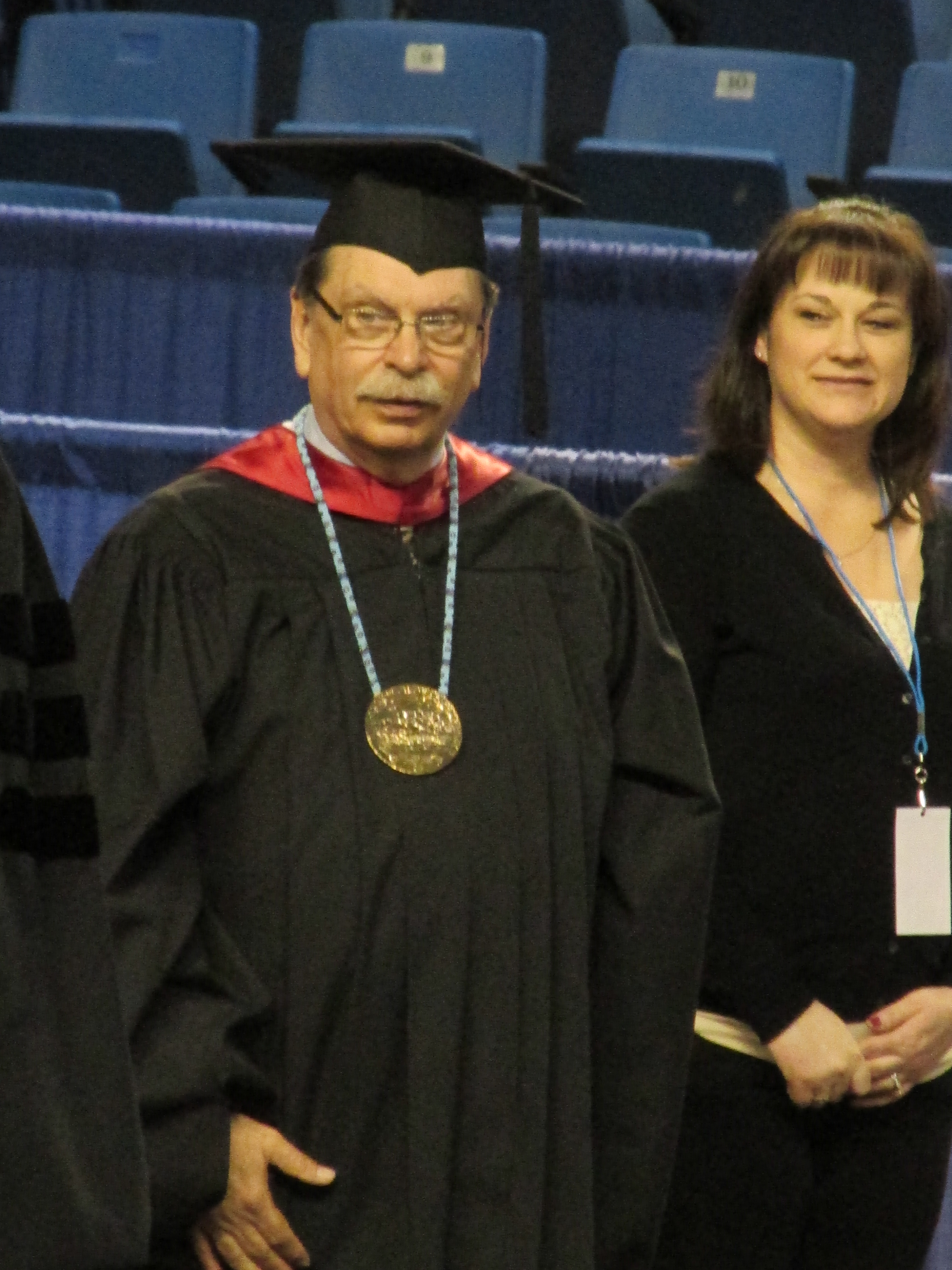 Brian D. Rogers, the chancellor of the University of Alaska Fairbanks, presides over the university's 2014 commencement ceremonies at the Carlson Center.